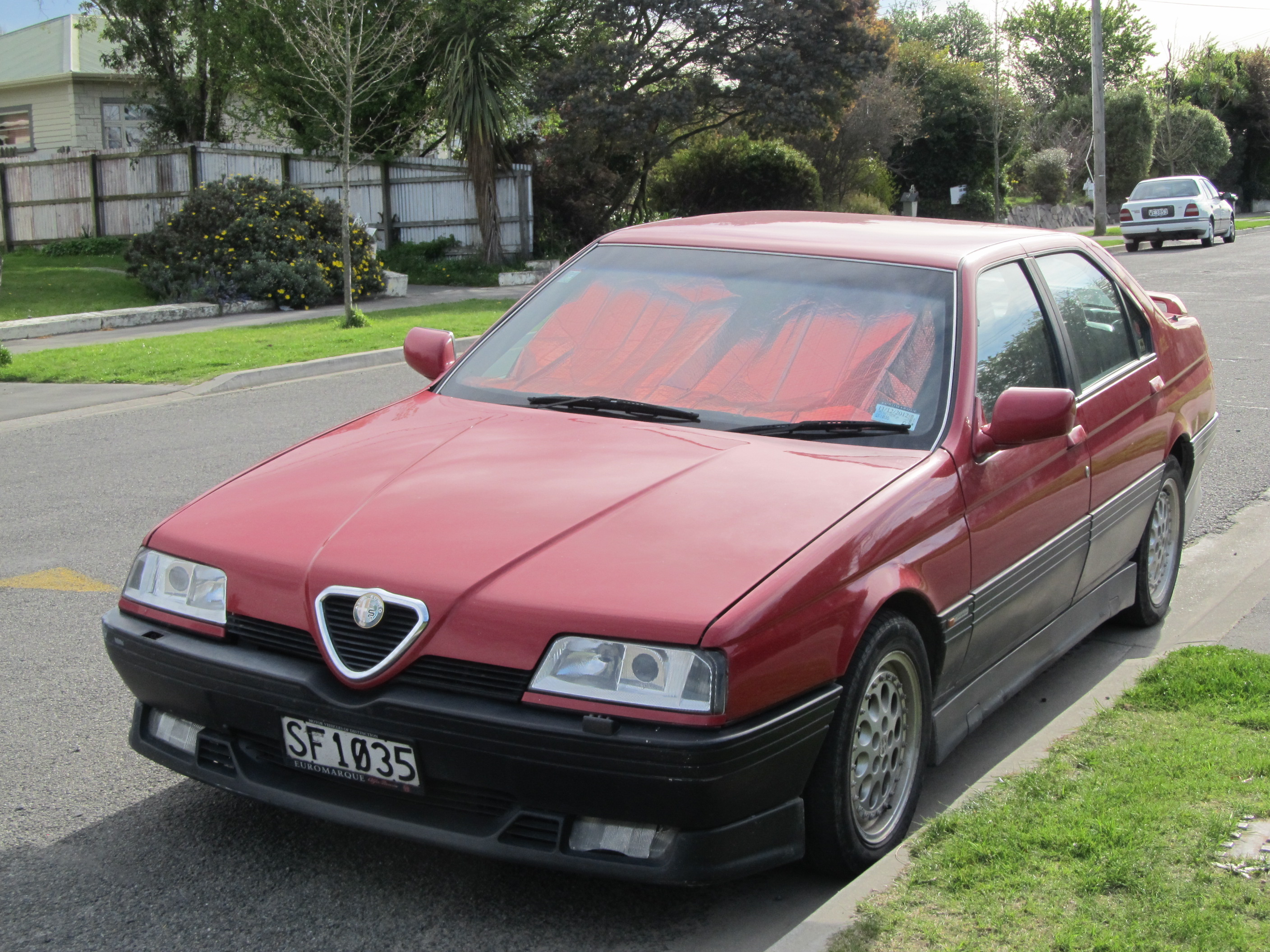 This would have cost almost $99k in 1993, being the absolute top line 164 with the 24 valve V6 and four wheel drive. These have always been a bit of an obscurity in NZ.